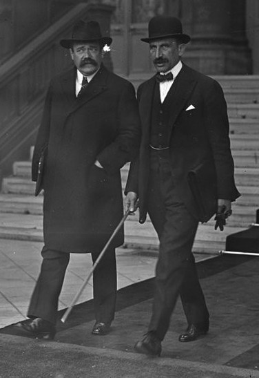 The ministers Yves Le Trocquer and Charles de Lasteyrie leaving the Palais de l'Élysée on 22 September 1922